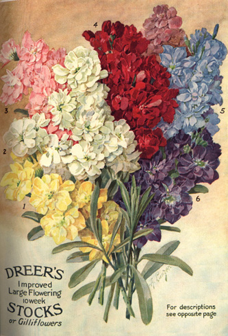 Flower illustration